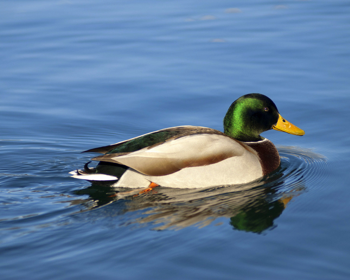 Mallard on Lake Bled, Slovenia